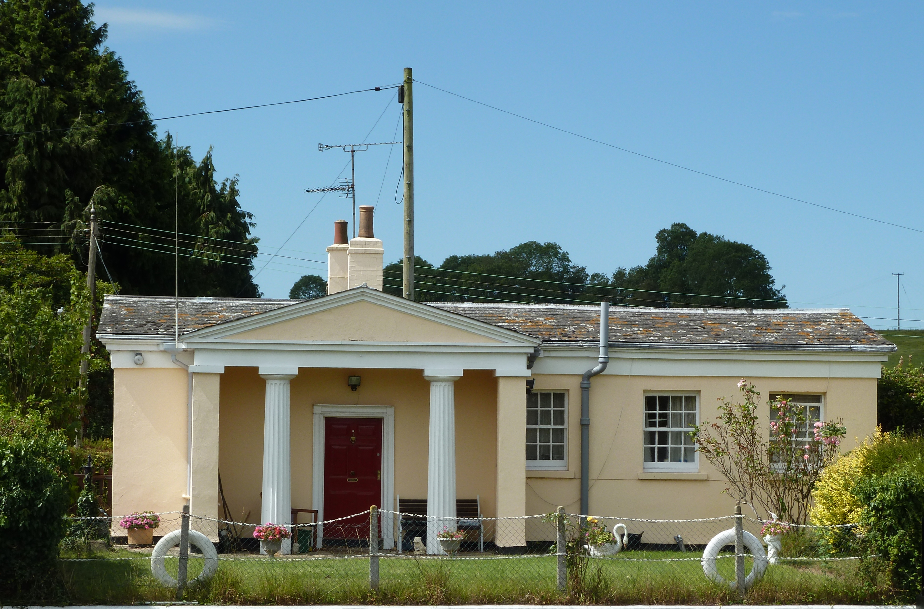 Canal House, the bridge-keeper's house at the swing bridge across the Gloucester and Sharpness Canal at Purton, Gloucestershire, seen from the northeast across the canal